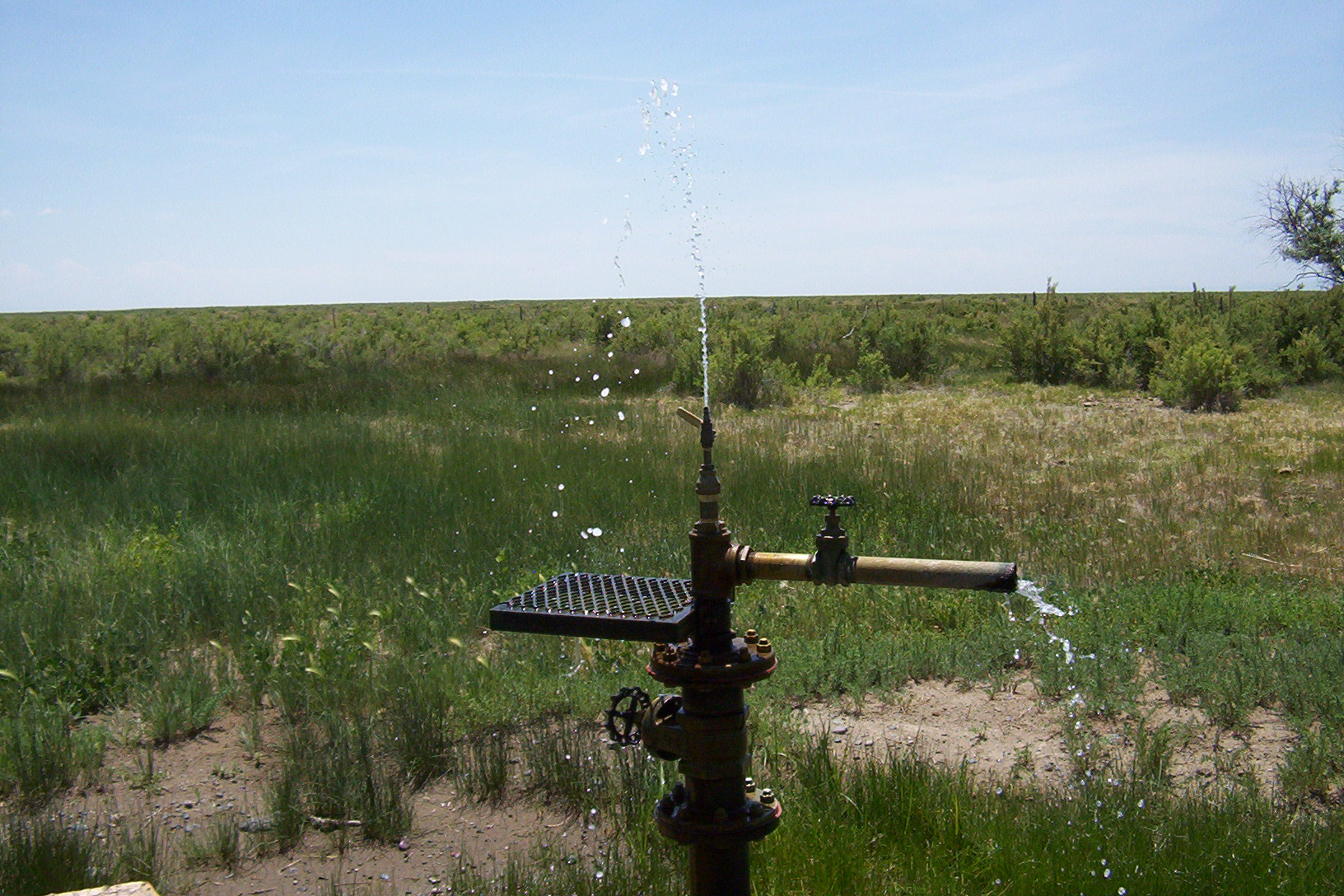 Capped artesian well on the Baca National Wildlife Refuge.